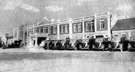 Dowa Automobile Headquarter in Mukden. This photo was taken before 1945.